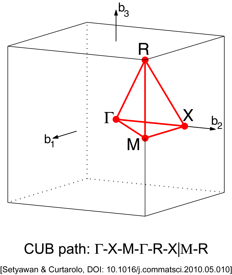 Curtarolo, consortium